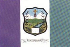 bandeira de boa esperança, sul de minas gerais